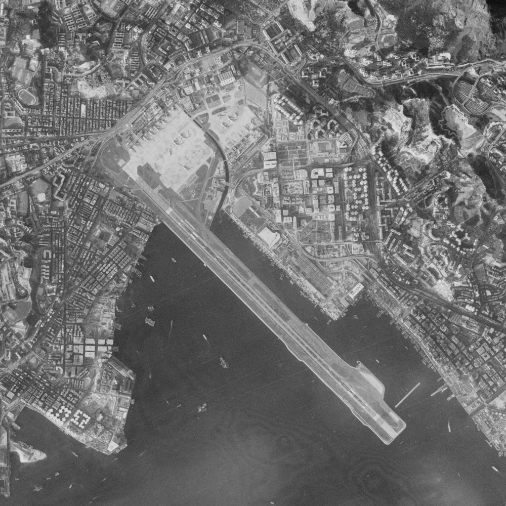 Arial Photo of Hong Kong Kai Tak Airport in the 80s of the 20th Century